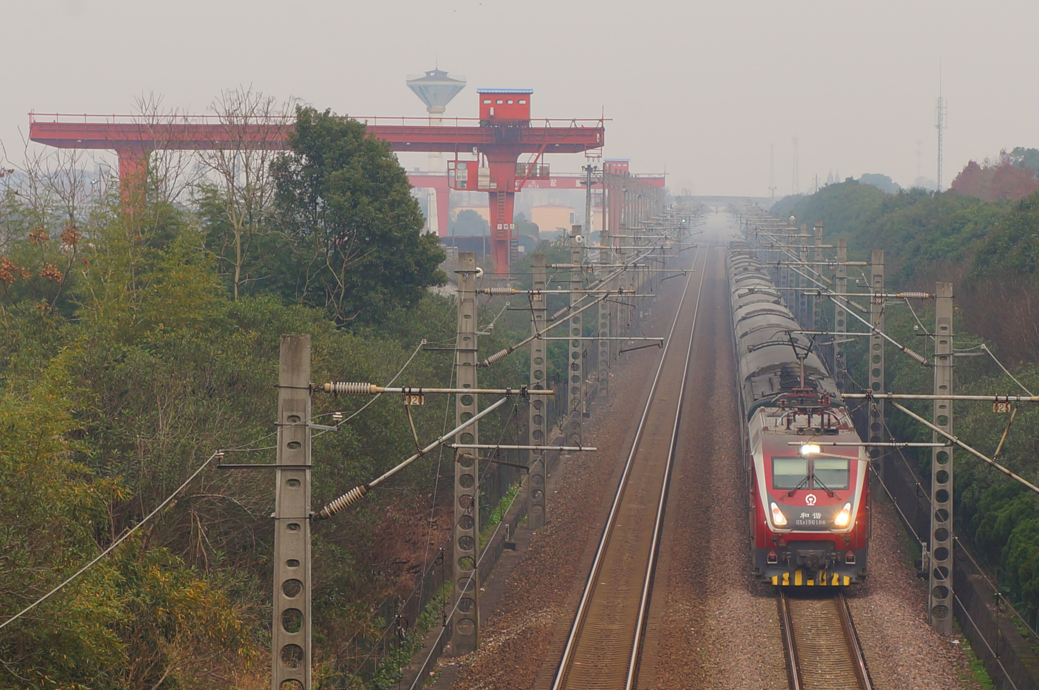 201612 T169 passes Jiangtang Station. Nice to see you again.